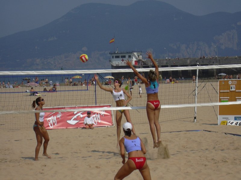 Beach Volleyball Spanish Championship 2004 in Laredo (Cantabria)